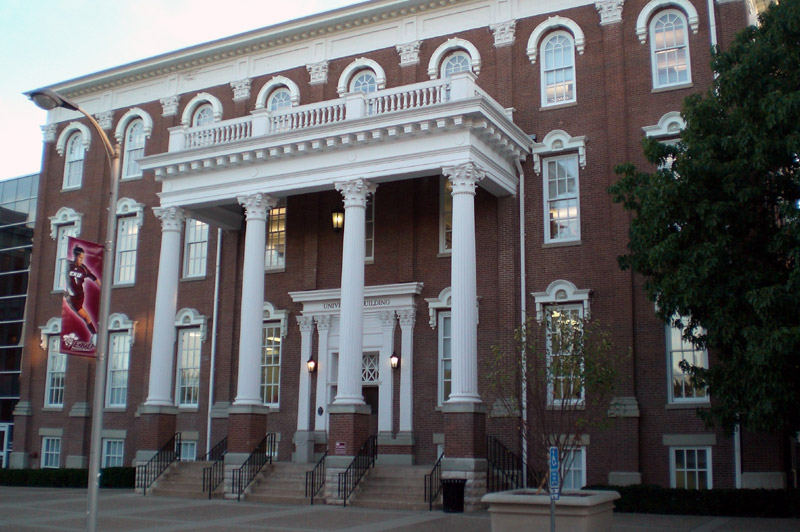 Exterior photograph of University Building, located on Eastern Kentucky University's campus in Richmond, KY.